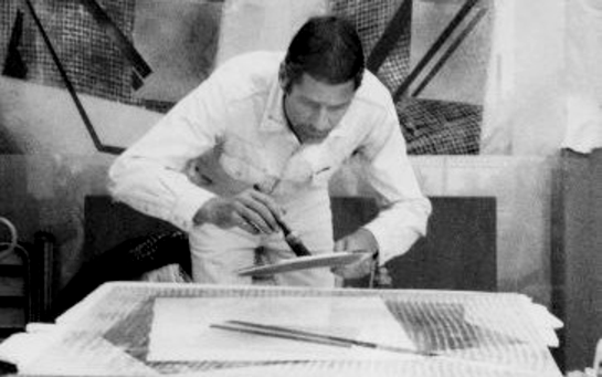 artist painting